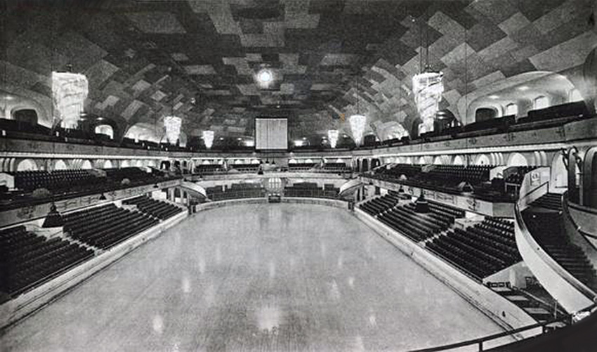 The skating rink in the Berliner Sportpalast